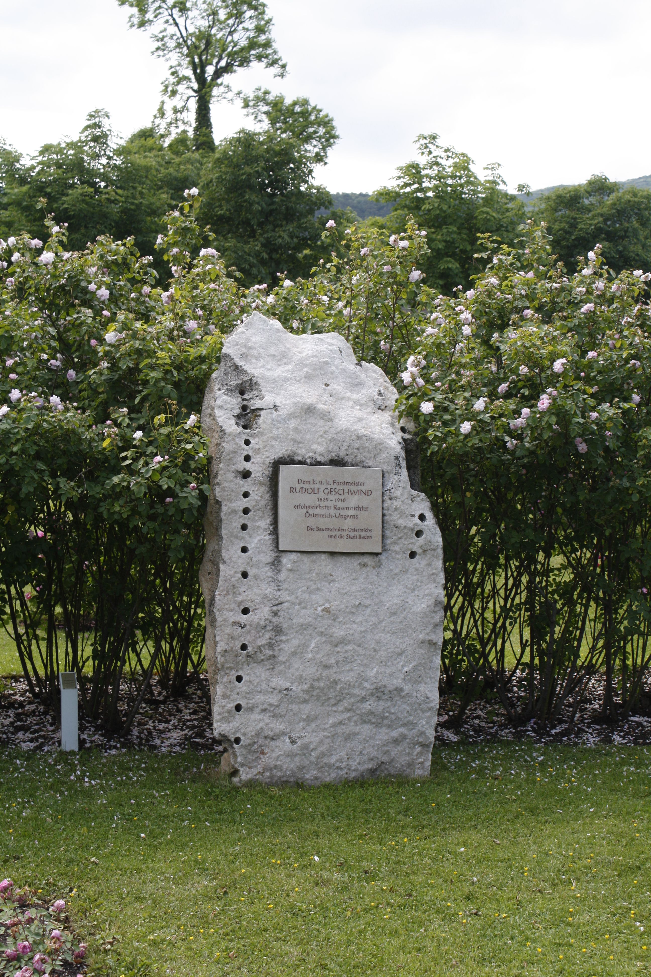 Monument of the autro-hungarian Rosarian known Rudolf Geschwind in Baden bei Wien